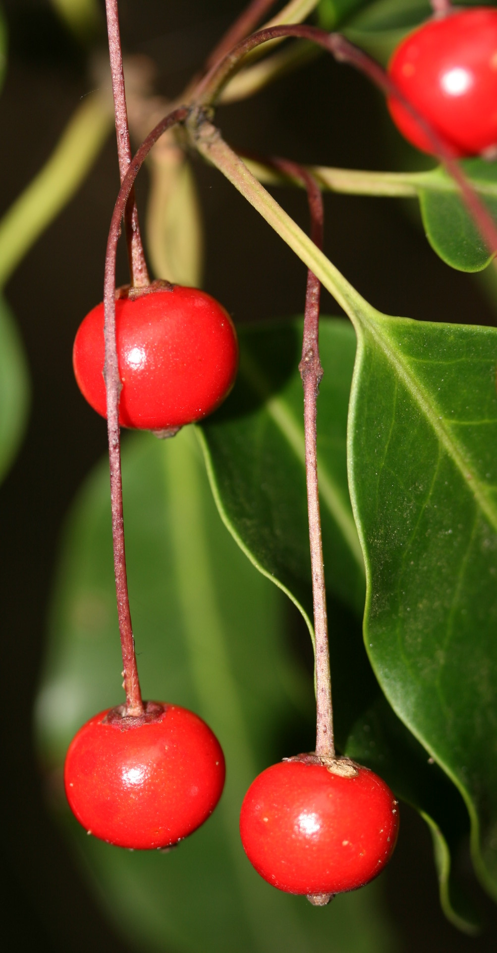 Ilex pedunculosa fruit detail